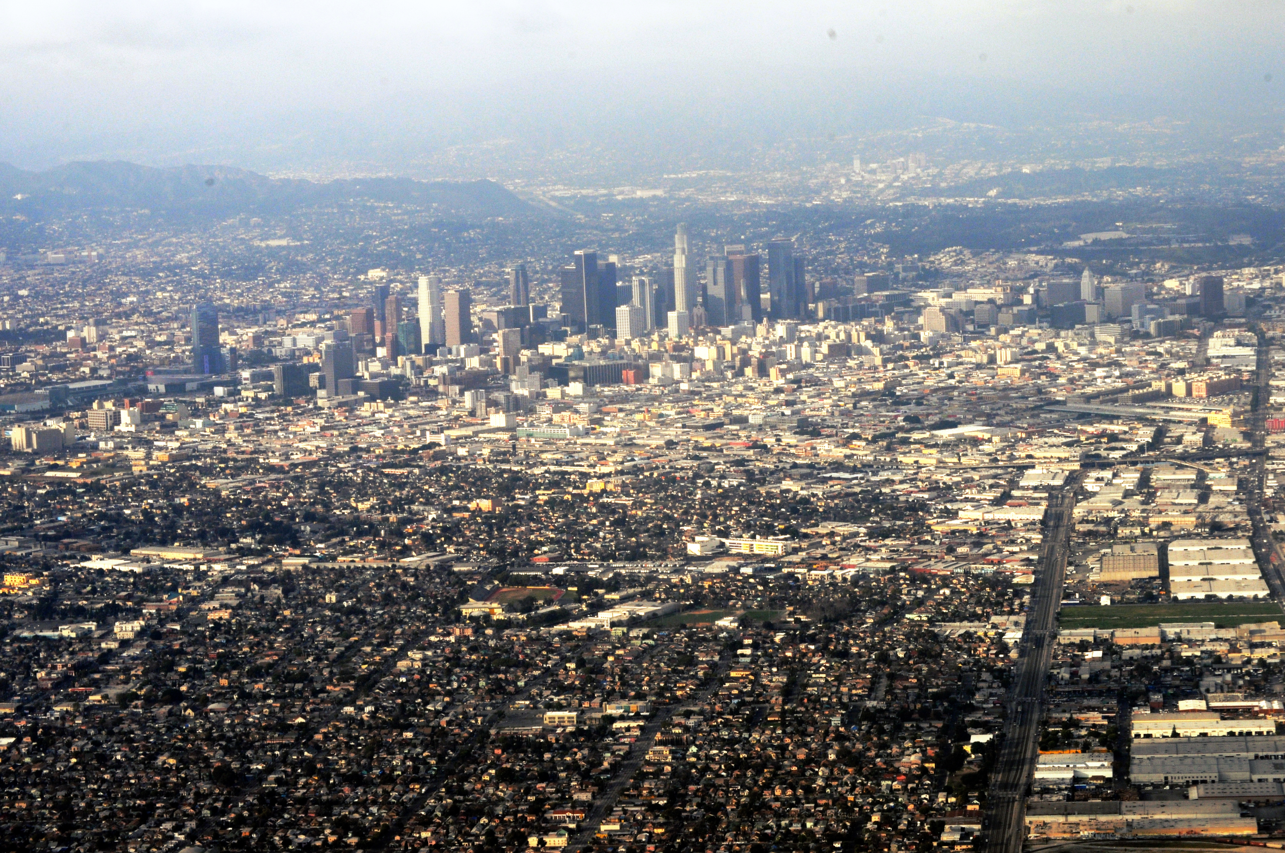 Aerial photo of Los Angeles, California.